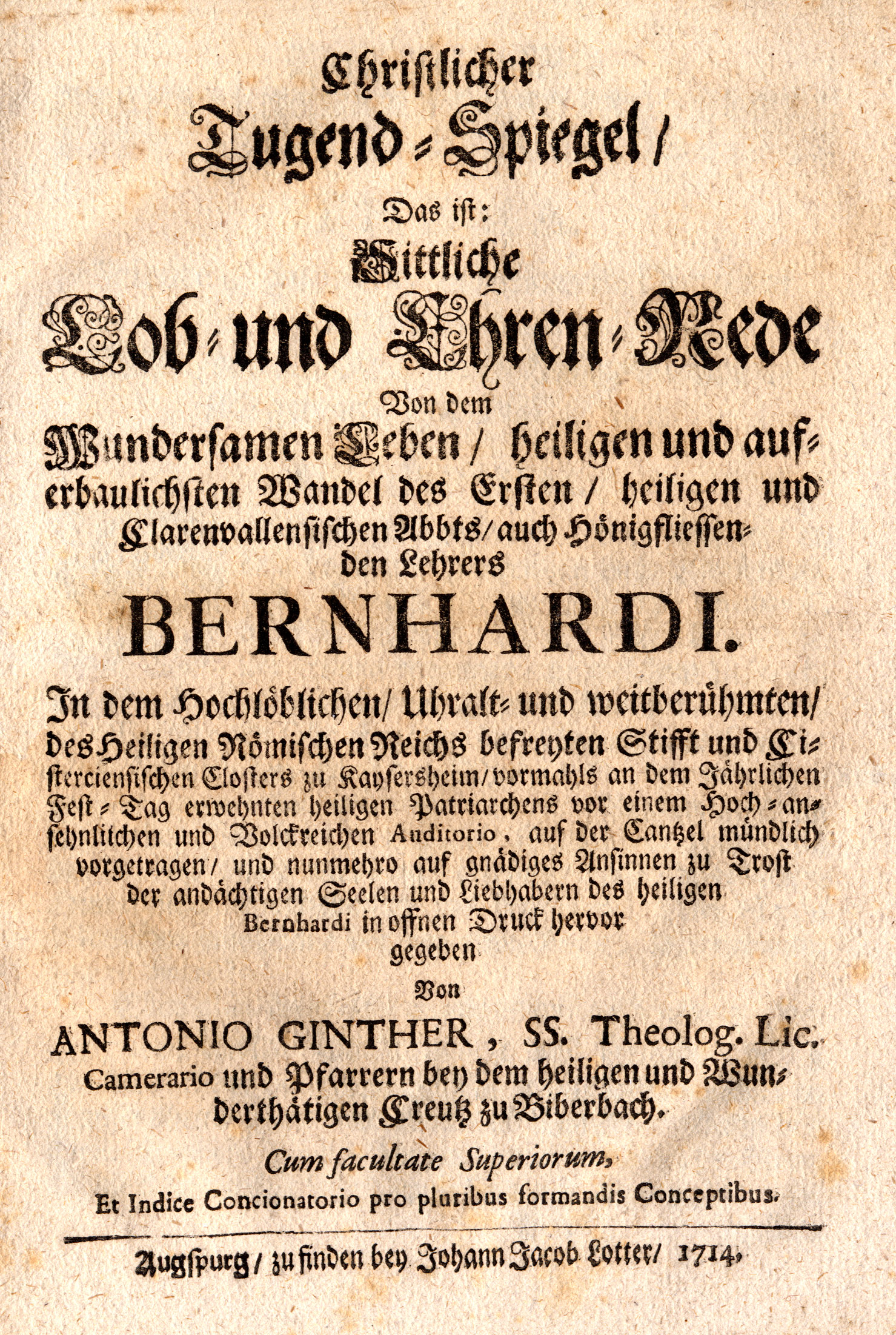 Title page of Anton Ginther's "Christlicher Tugend-Spiegel / Das ist: Sittliche Lob- und Ehren-Rede Von dem Wunderbaren Leben [...] BERNHARDI." printed by J.J. Lotter, Augsburg 1714.